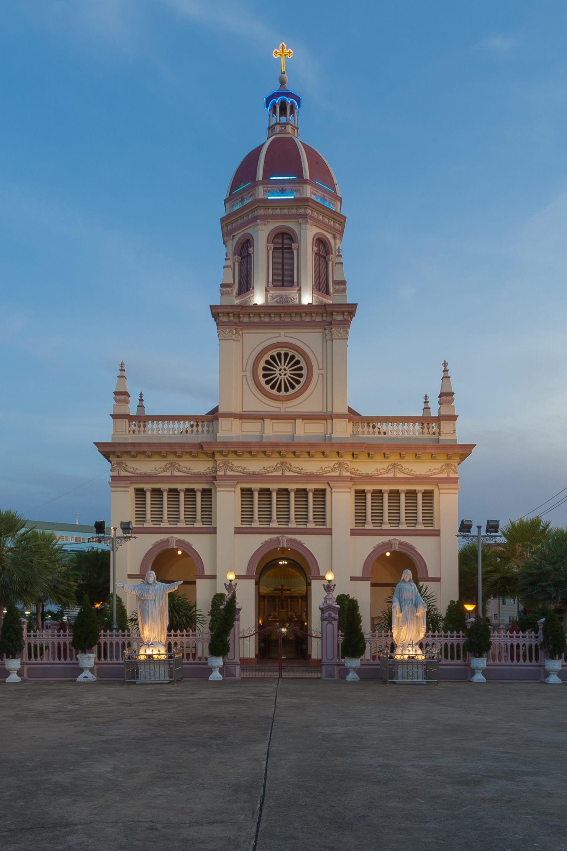 Santacruise Church, Bangkok.